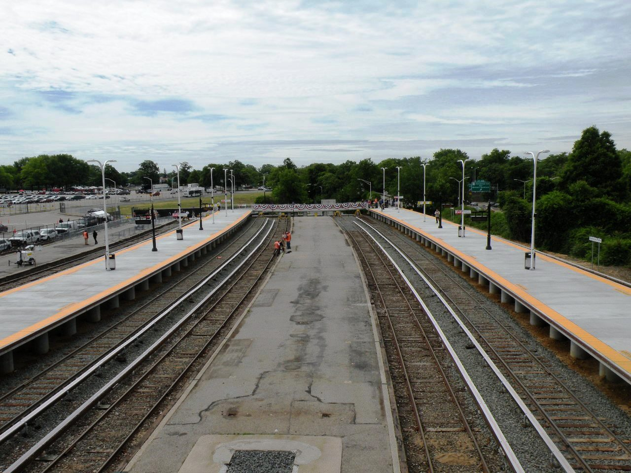 Refurbished Belmont Park Station opens in time for running of the 147th Belmont Stakes. Photo: MTA Long Island Rail Road Angelo Cannella and John Spoltore